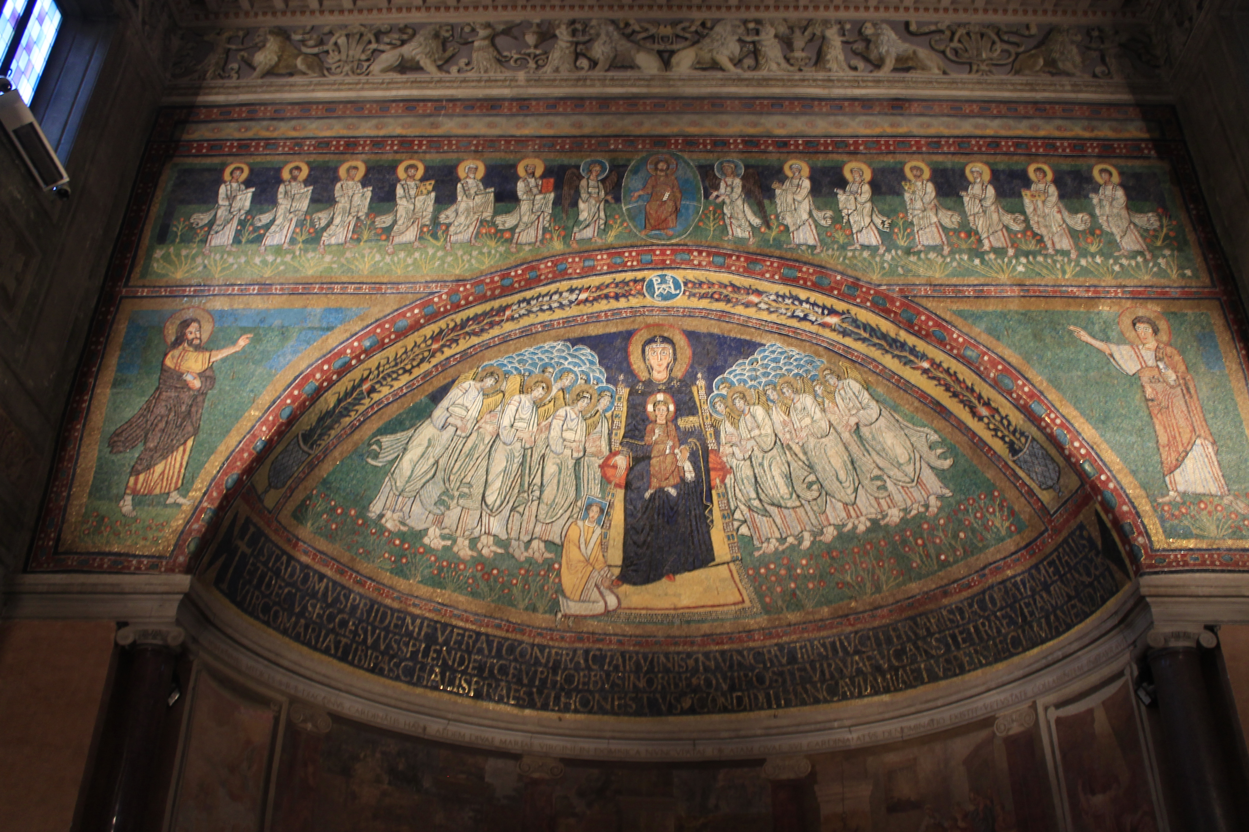 IX century apse mosaic in Santa Maria in Domnica